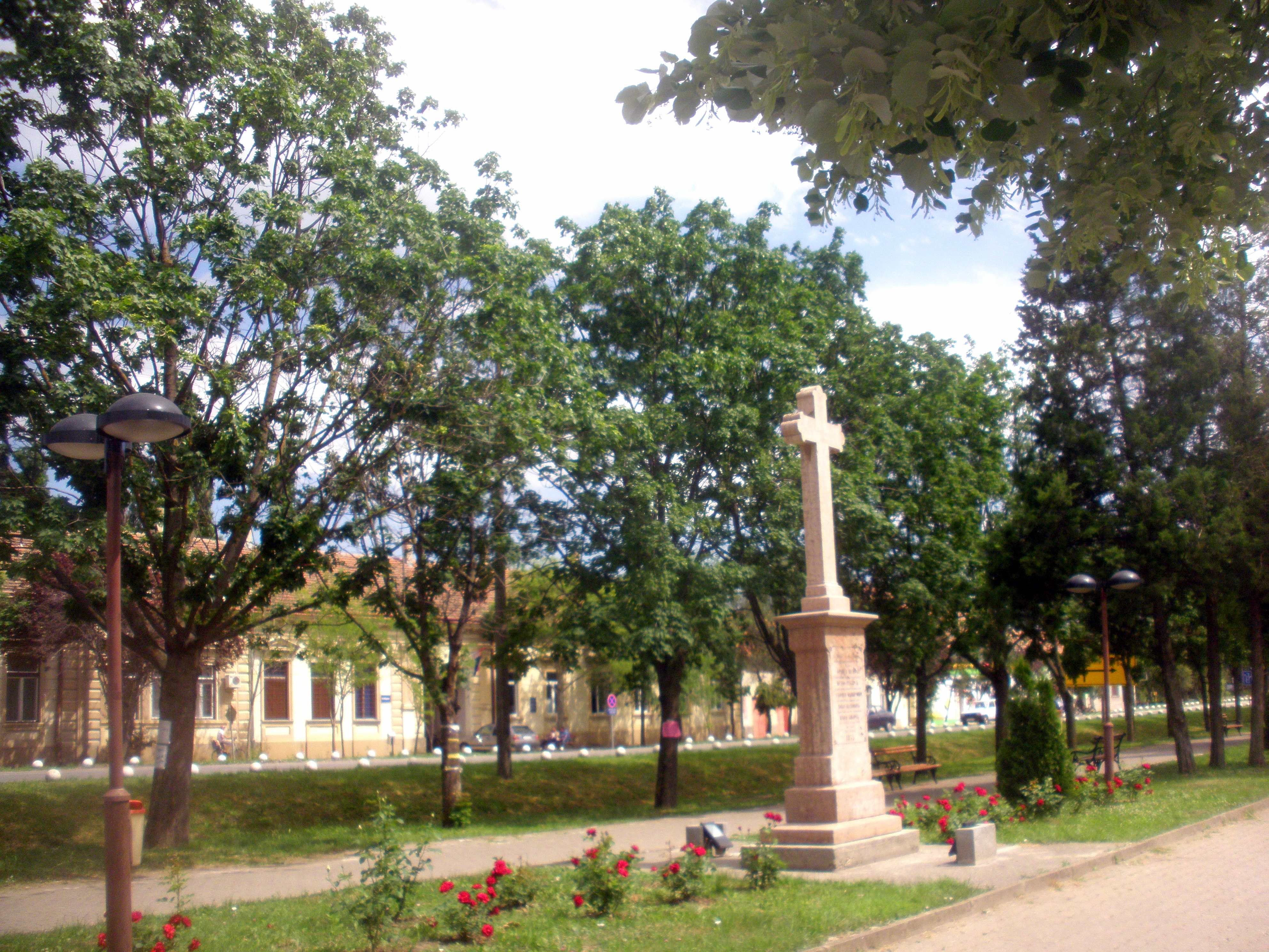 Cross from 1855 in center of Melenci, in background native house of Marija Margita Bogner